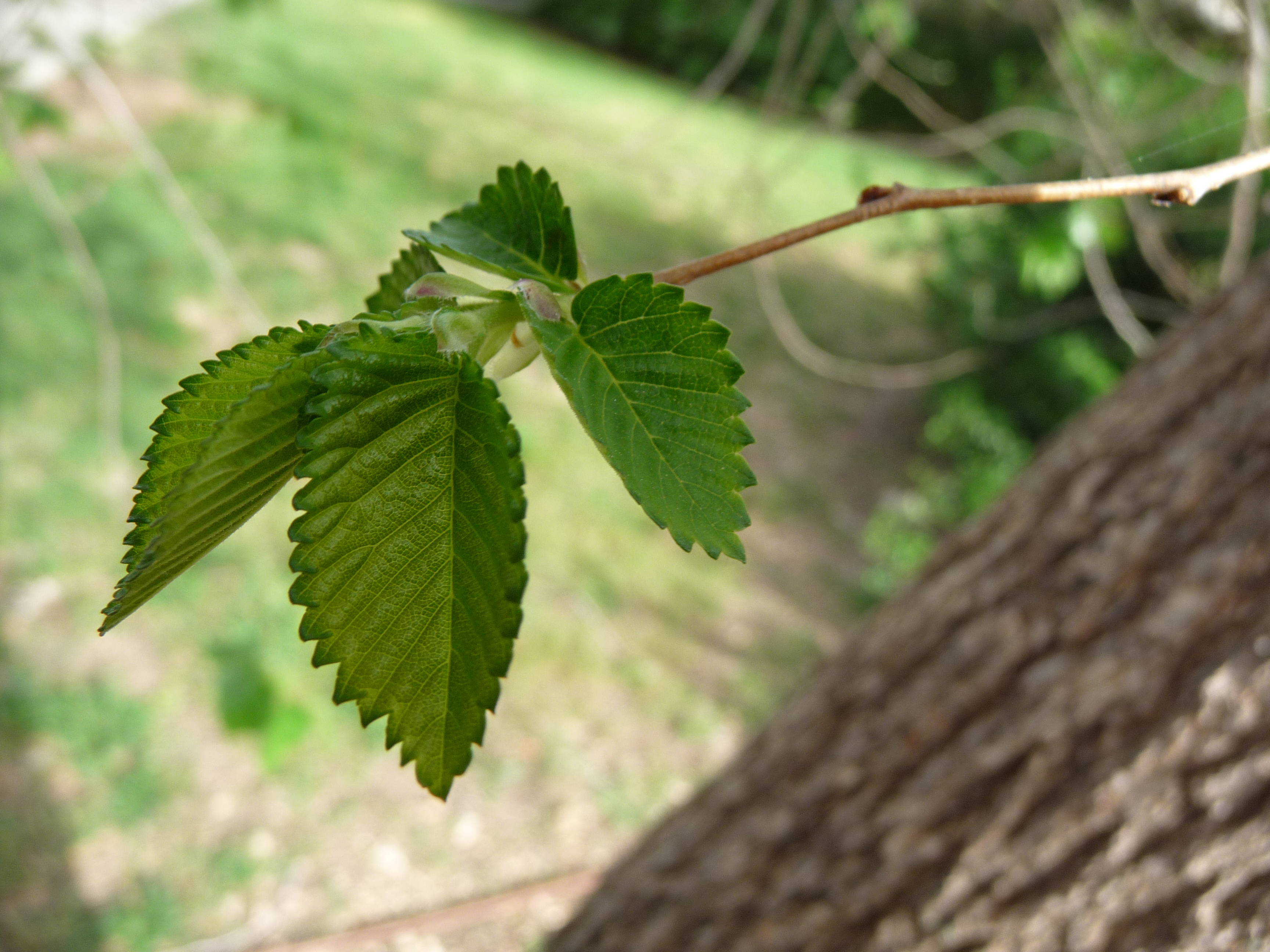 Beit Oren is a kibbutz in northern Israel. It falls under the jurisdiction of Hof HaCarmel Regional Council.